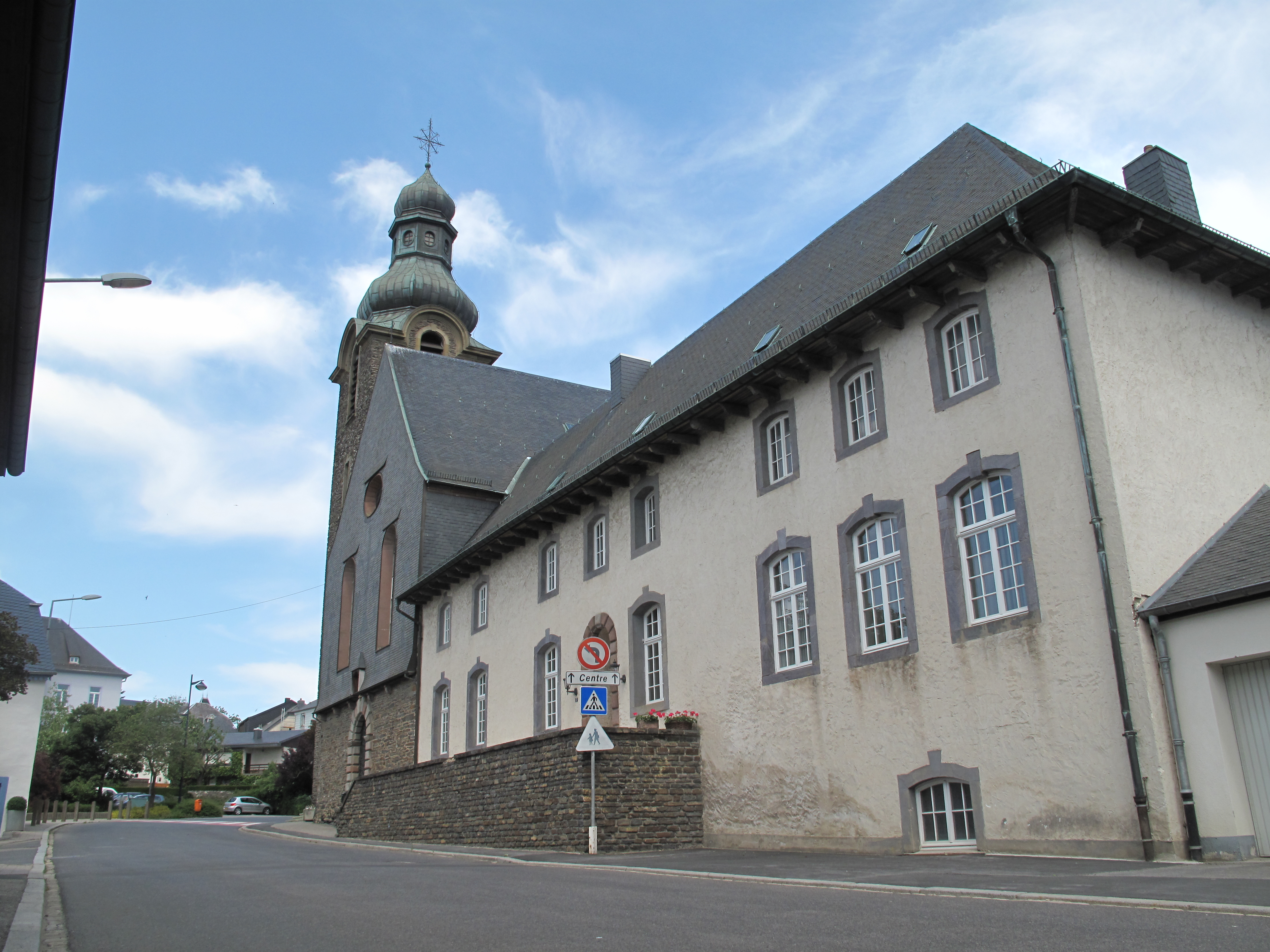 Troisvierges, church